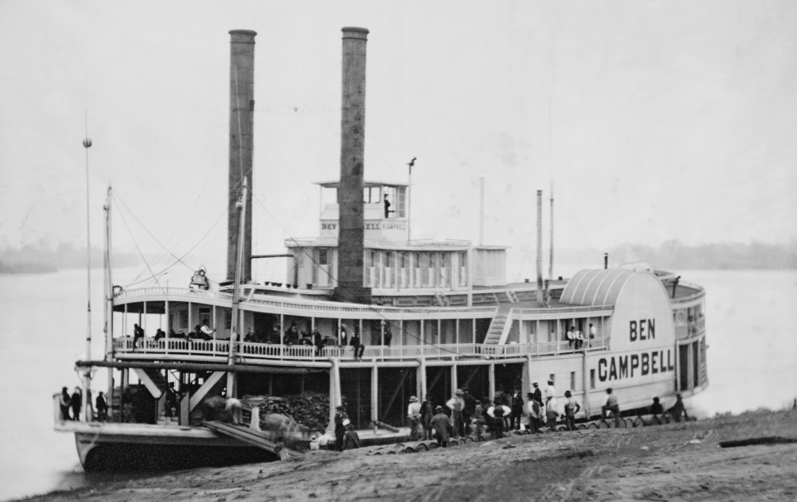 Ben Campbell steamship at landing, restored version of a daguerreotype. Cropped, with artifacts removed, mild denoising/sharpening, and levels adjusted.